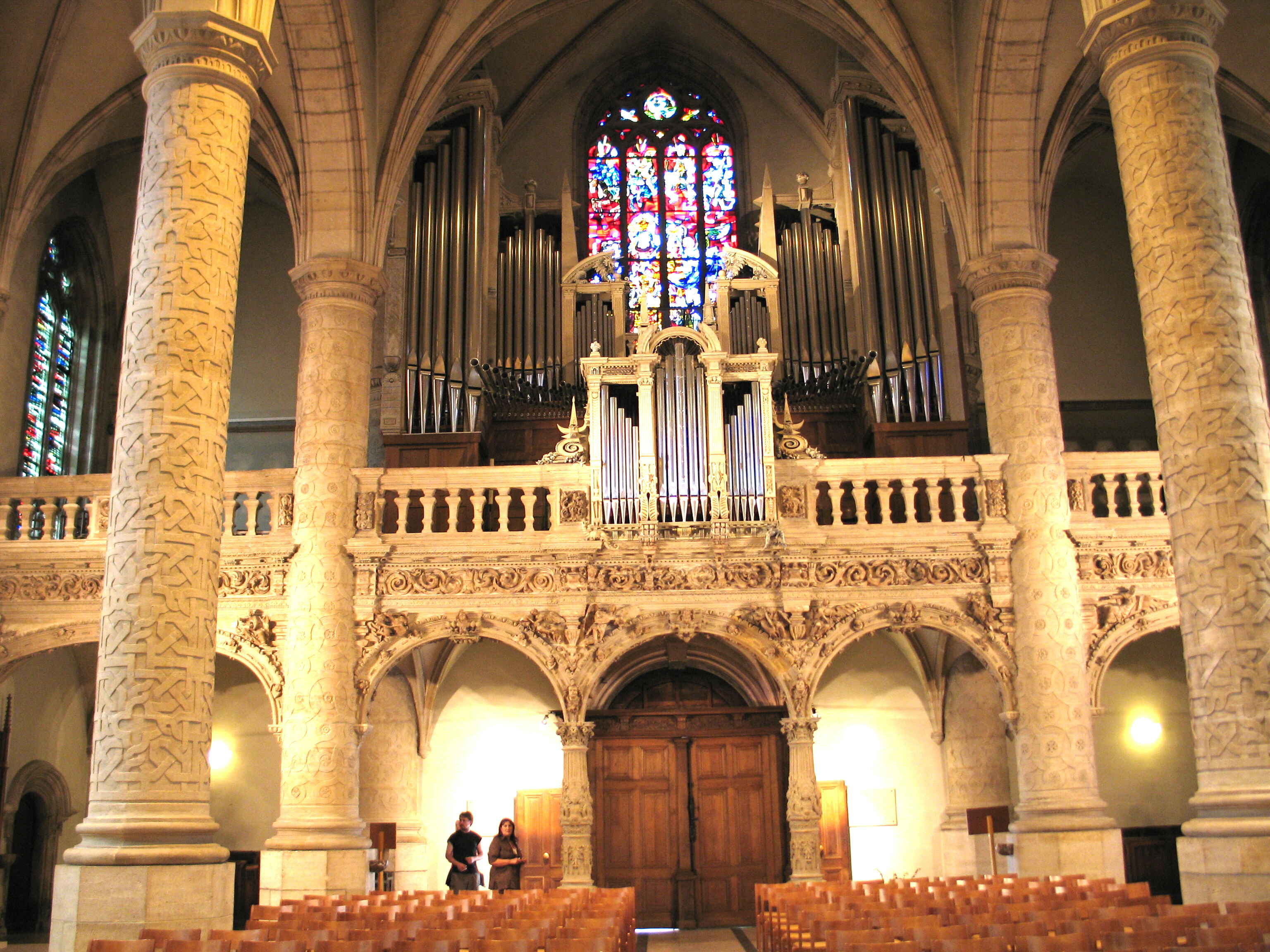 View of the Organ Gallery, Luxembourg Cathedral